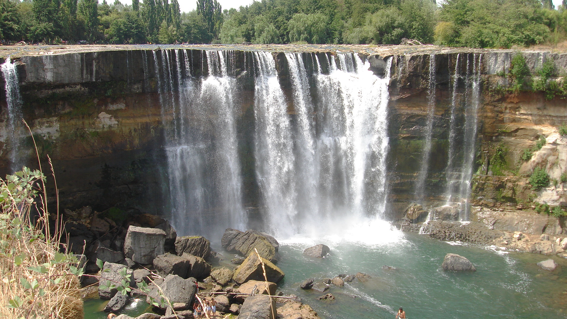 Waterfall of the river Laja In the south of Chile.